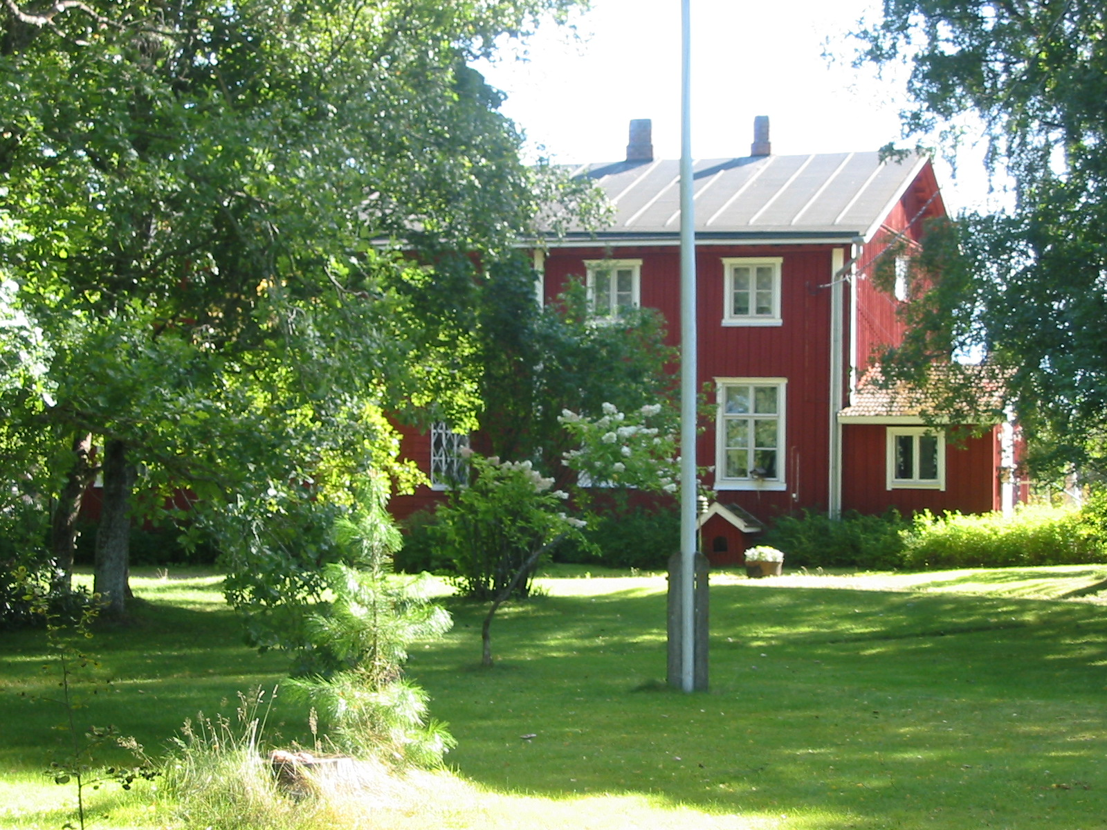 Saari Manor in Ulvila, Finland, in august 2013